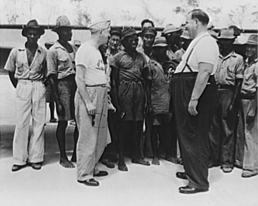 Original caption:" Laurel and Hardy were in the first United Service Organization (USO) "Flying Showboat" to tour Caribbean bases."